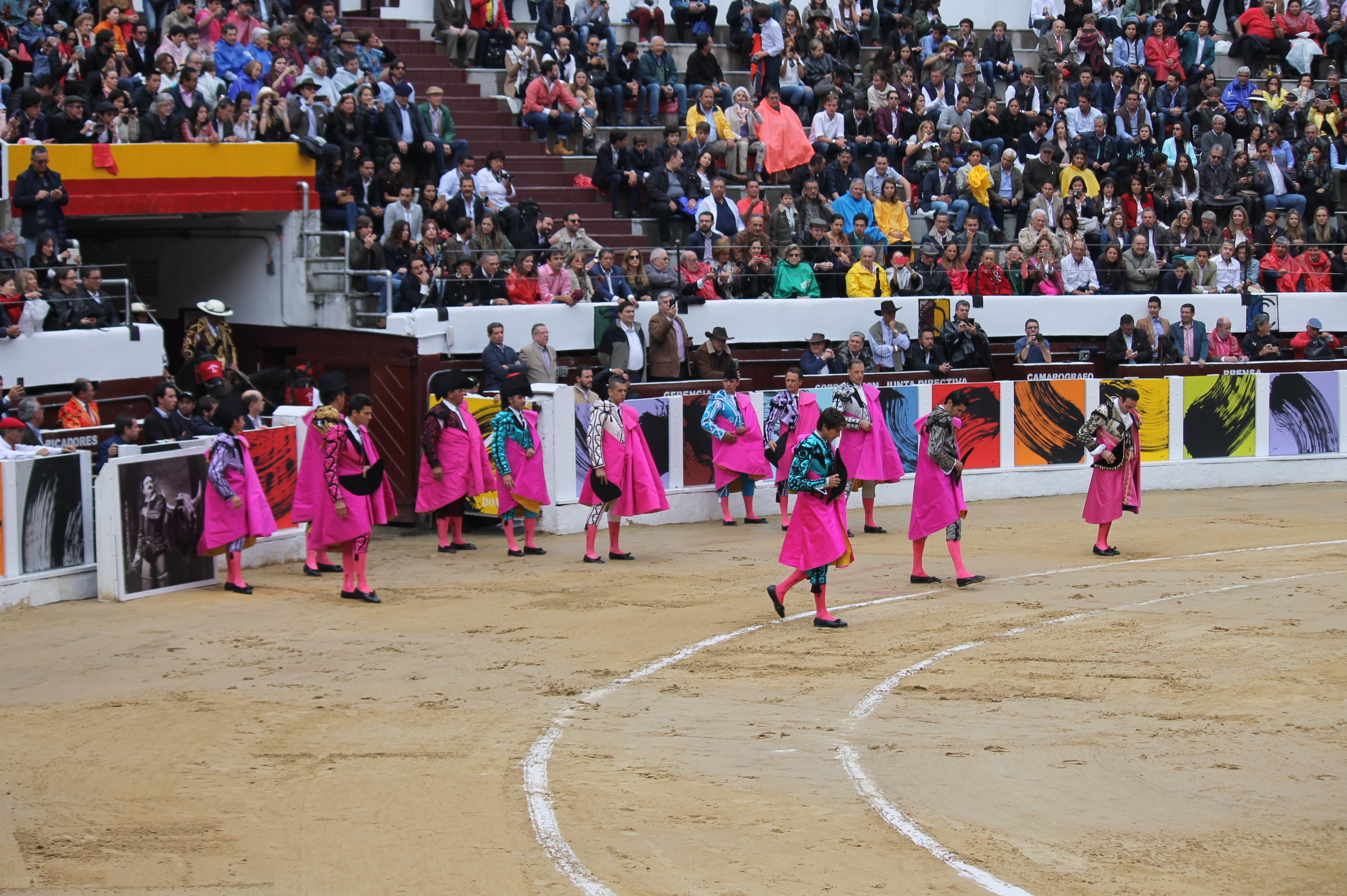 Tercera corrida de abono de 2019 en Bogotá